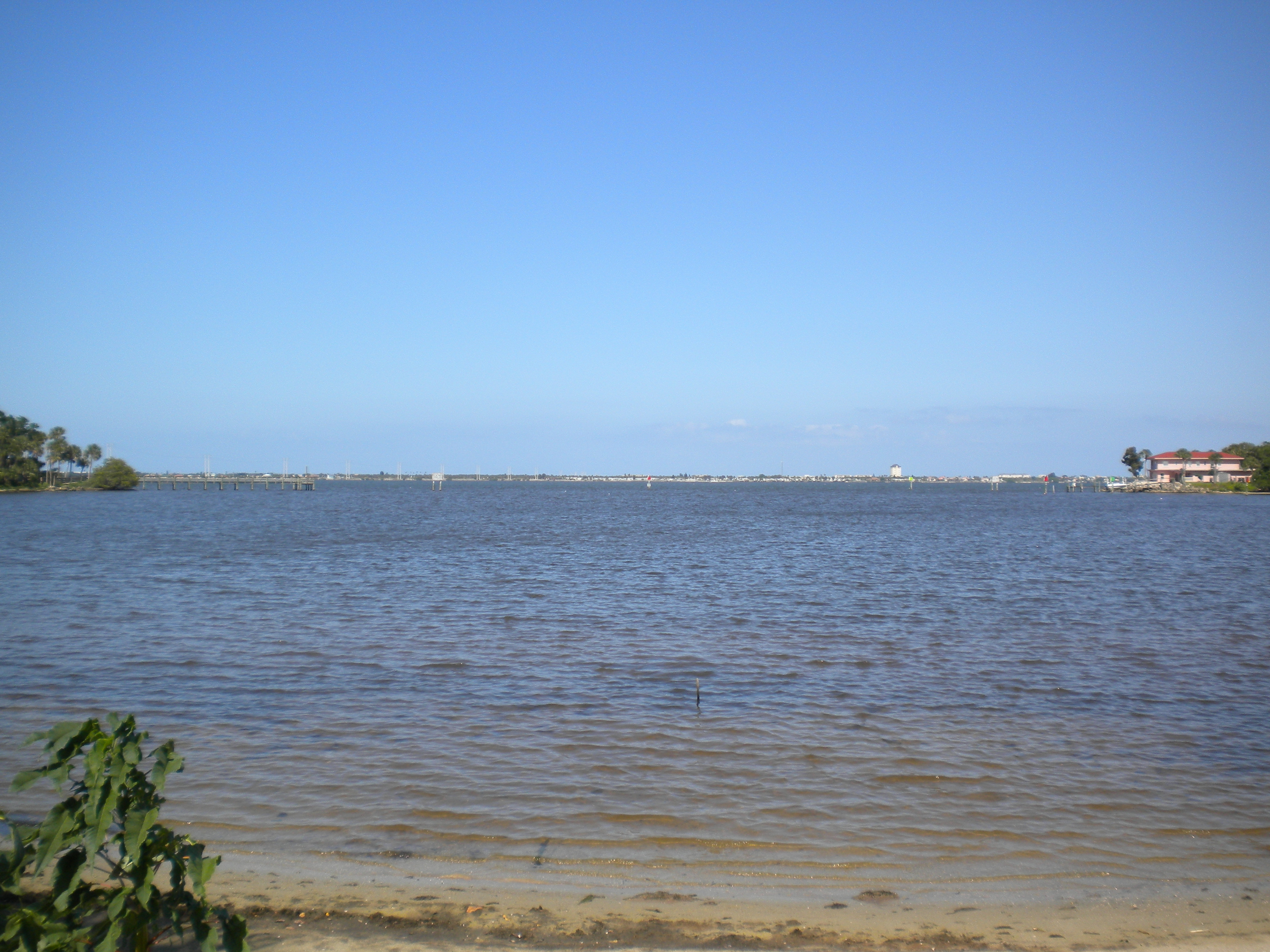 Palm Bay in Palm Bay, Florida. Photograph taken from near U.S. Route 1, Palm Bay with the camera facing east.